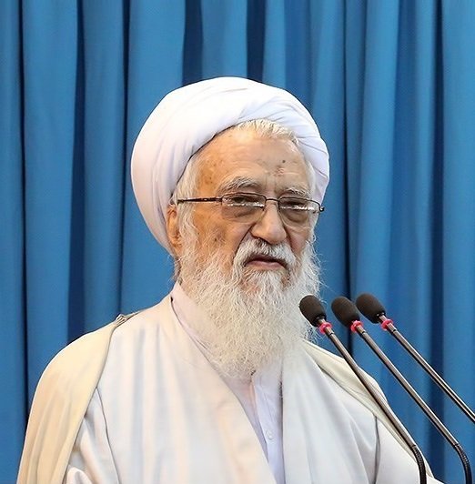 Ali Movahedi-Kermani